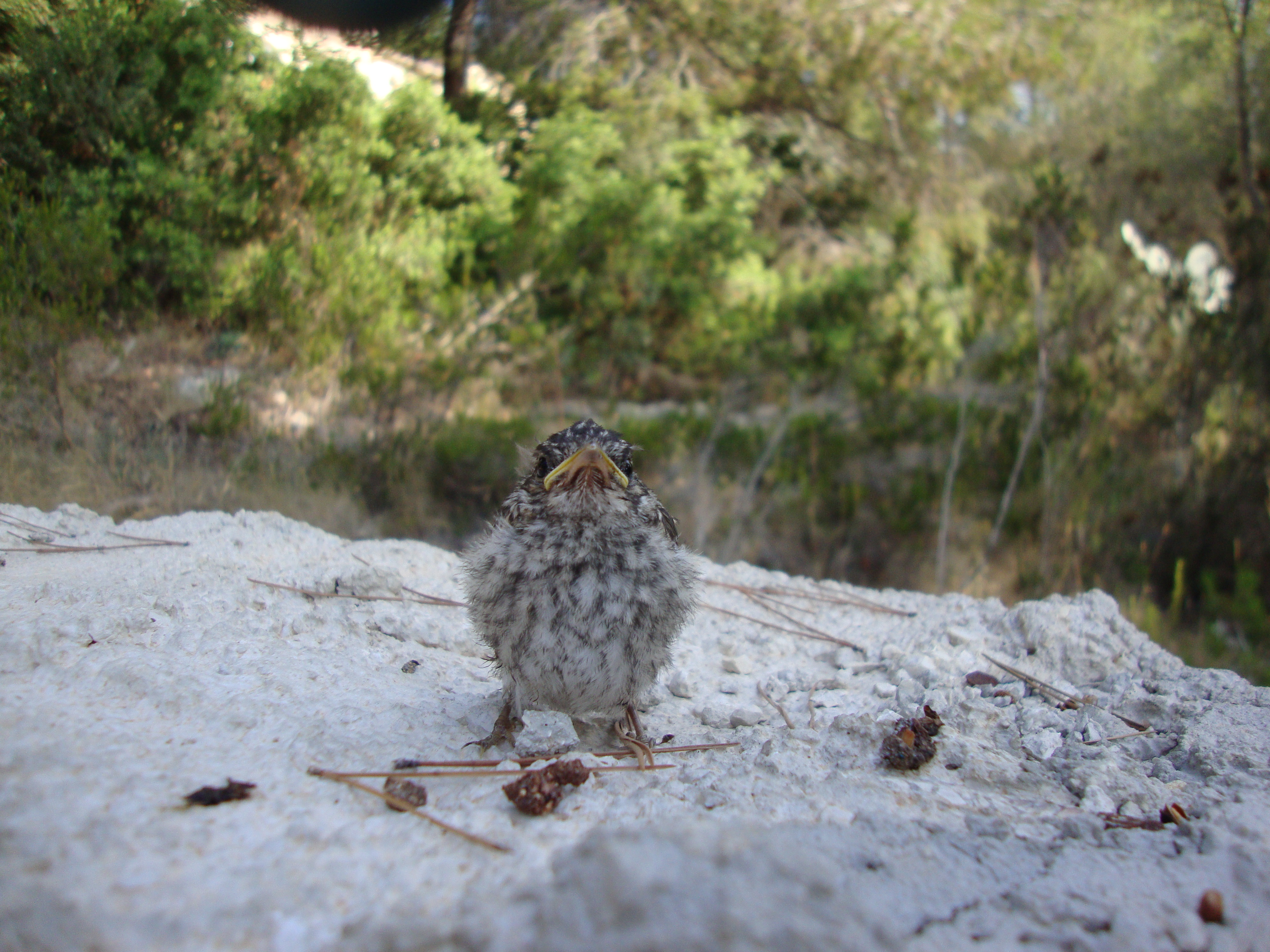 Juvenile Muscicapa striata in Moraira, Spain